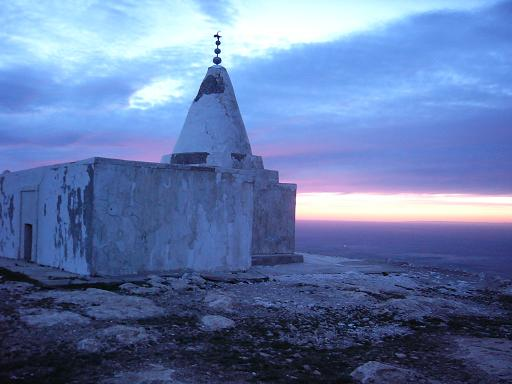 The Chermera or "40 Men" Temple, a Yezidi temple on the highest peak of the Sinjar Mountains in northern Iraq. Picture taken by an American Soldier from the 334th Signal Company, 3rd Brigade, 2nd Infantry Division, April 2004.